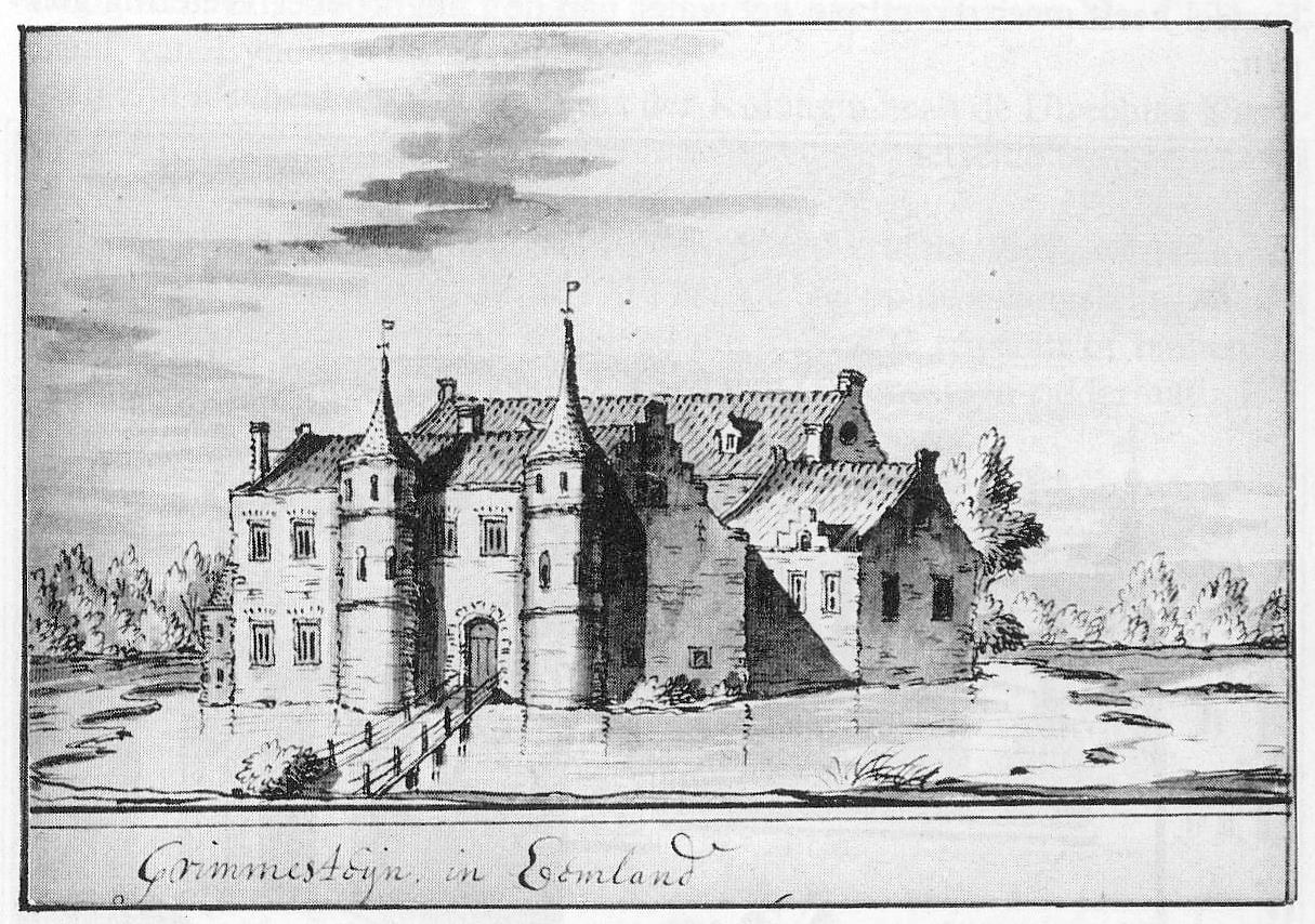 Grimmestein near Baarn